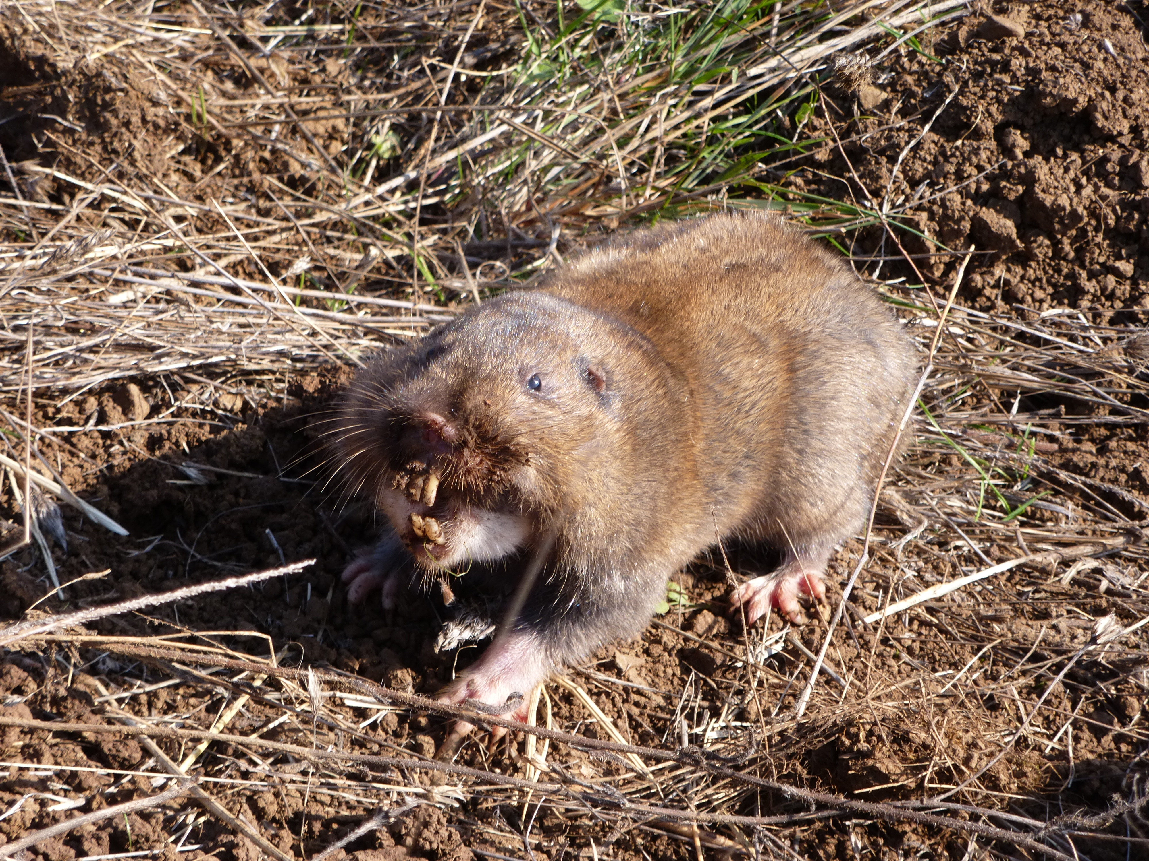 Photograph taken on habitat restoration site where the gophers were being trapped out of concern that they were destroying sensitive vegetation. Due to the trap being too small, the animals nose was caught for an indeterminate amount of time. Camas pocket gophers are the largest member of the species and are frequently too large for conventional traps. They can be tame, but fierce when in a defensive position.